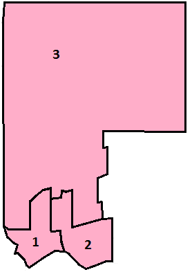 Map of Pickering, Ontario's three wards